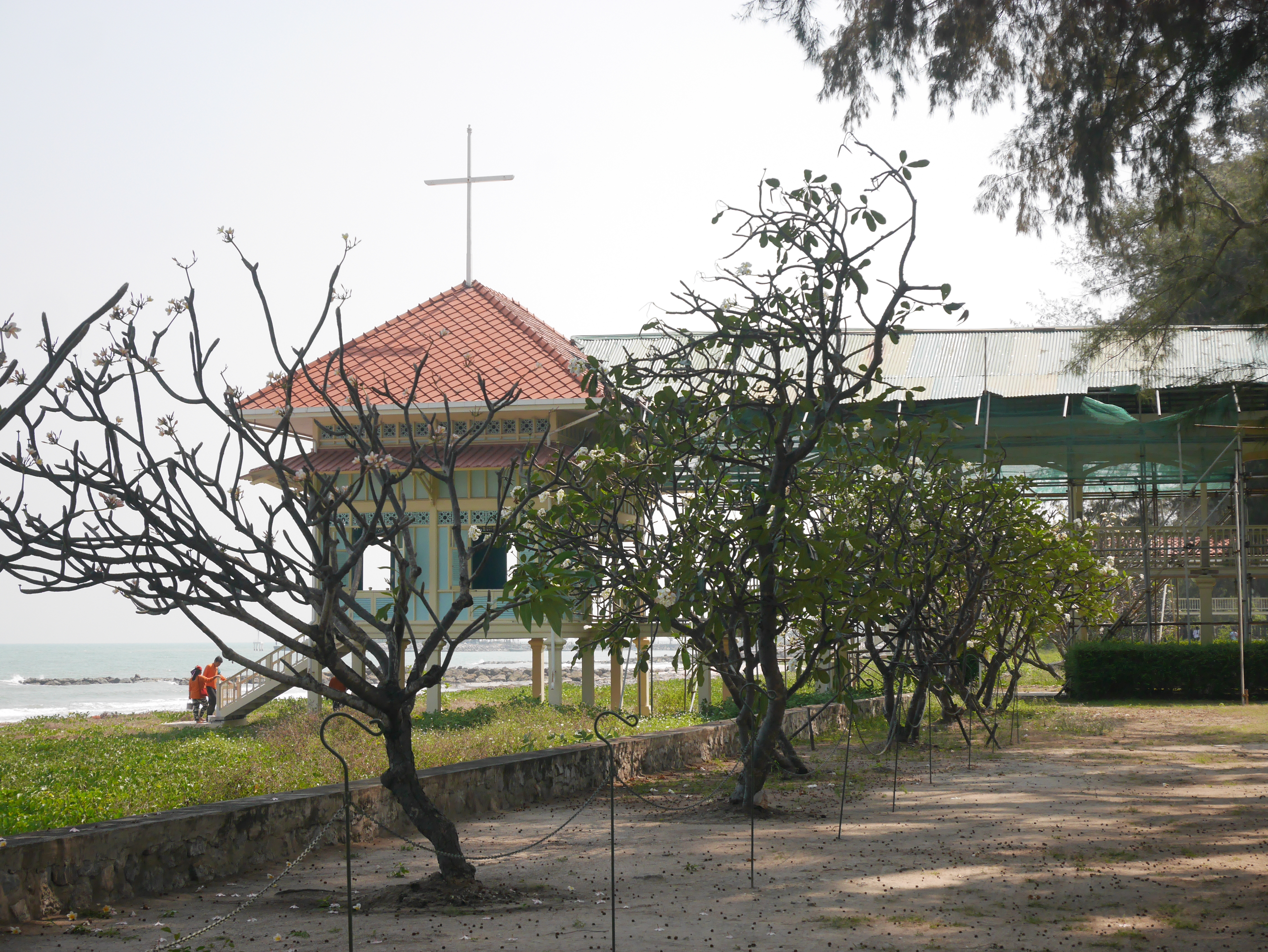 พระราชวังมฤคทายวัน เจ้าของบัญชี กสิณธร ราชโอรส เป็นเจ้าของบัญชีเดียวกับ บัญชี Phonlakrit Sunthornphon ของ Facebook บัญชี Tsutomu RIkimi ของ Google และ Panoramio .com บัญชี ซูบารุโยของ บัญชี สมาชิกหมายเลข 3915106 ของ กสิณธร ราชโอรส same account holder of Facebook (Phonlakrit Sunthornphon),Google and (Tsutomu RIkimi) and ซูบารุโย at